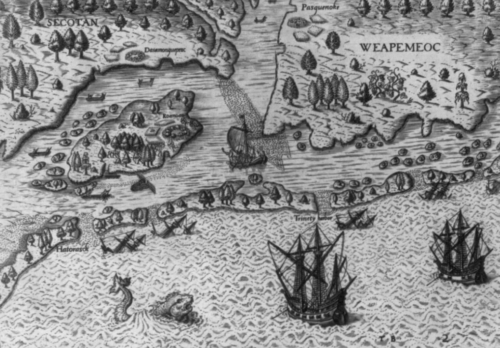 Map showing the coast of Virginia with many islands just off the mainland, two Native territories, Secotan and Weapemeoc, and the Native community of Roanoak on an island at the mouth of a river.